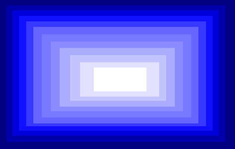 The evolution of the blue